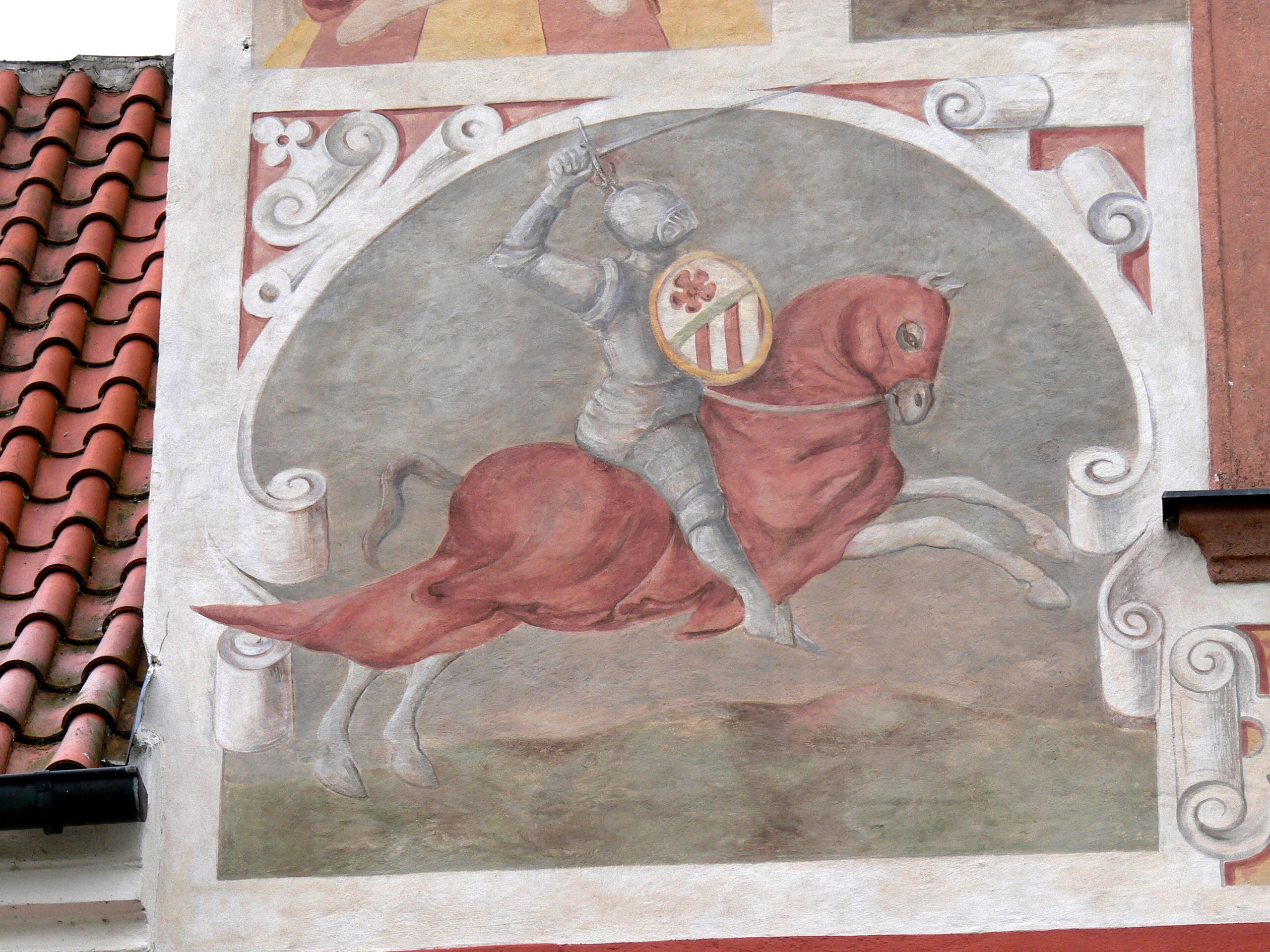 Monastery of Vyšší Brod. Gatehouse: Fresco ( 16th century ) of Wok of Rosenberg, founder of the monastery.